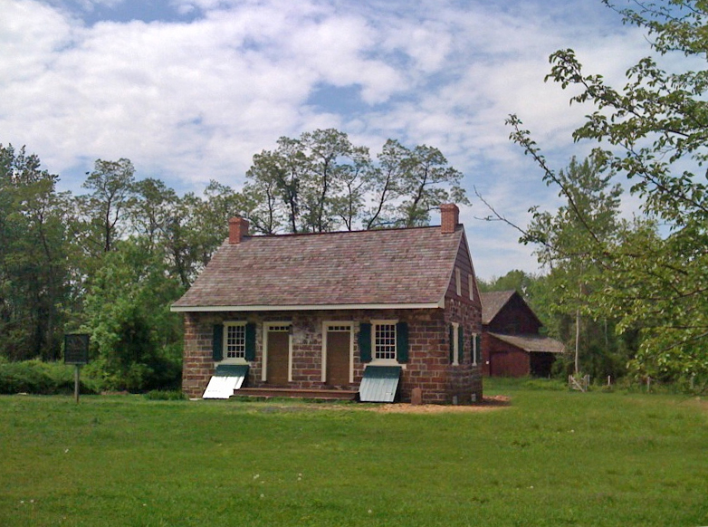 Demarest House (River Edge)